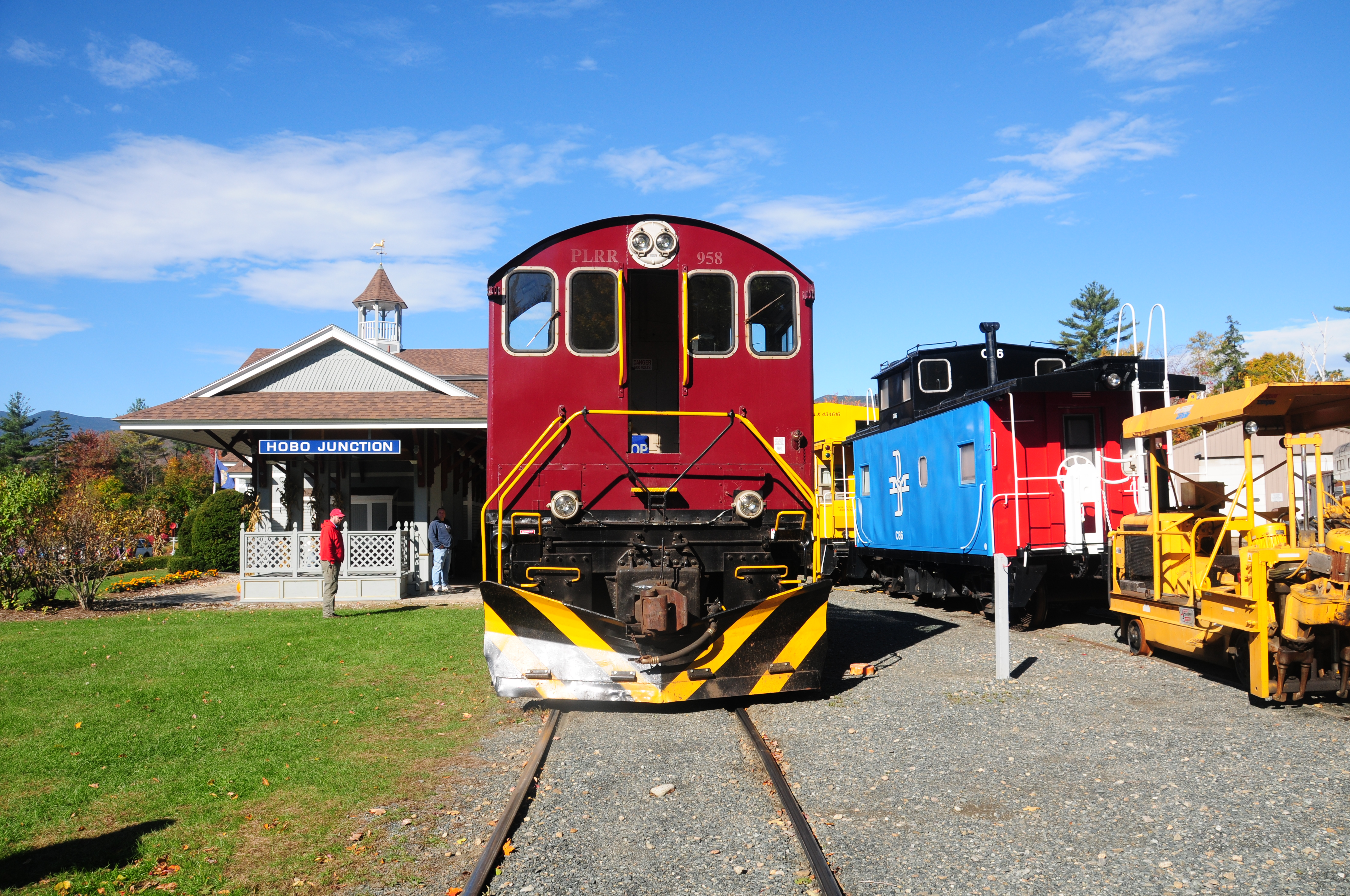 Picture of Hobo Junction station and Hobo Railroad equipment in Lincoln New Hampshire, United States. At center is ex-MEC ALCO S-1 switcher #958; at right is ex-B&M boxcar #C86, built in 1959.